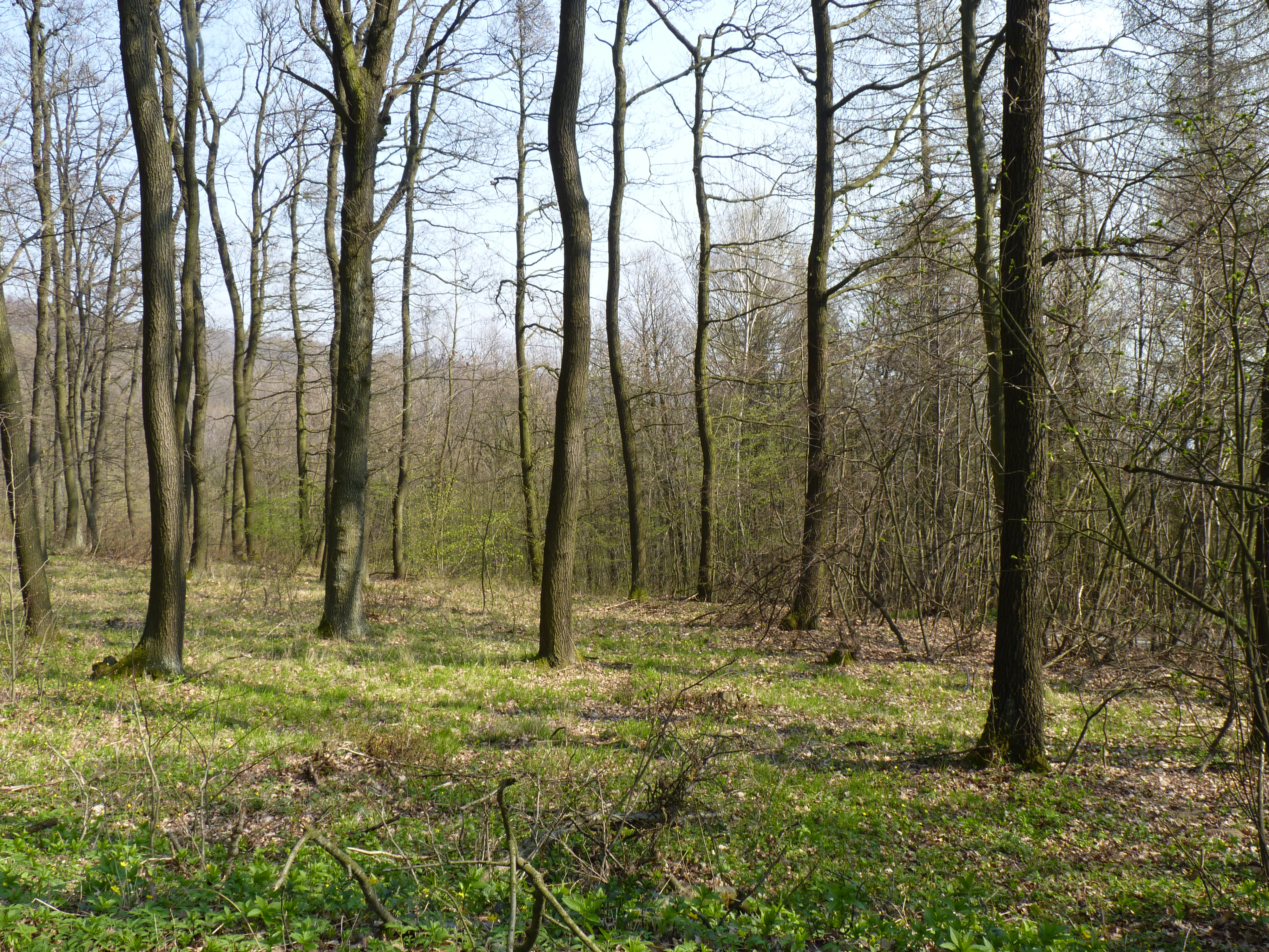 Kukle (national natural monument). Břeclav District, South Moravian Region, Czech Republic Project: Chráněná území